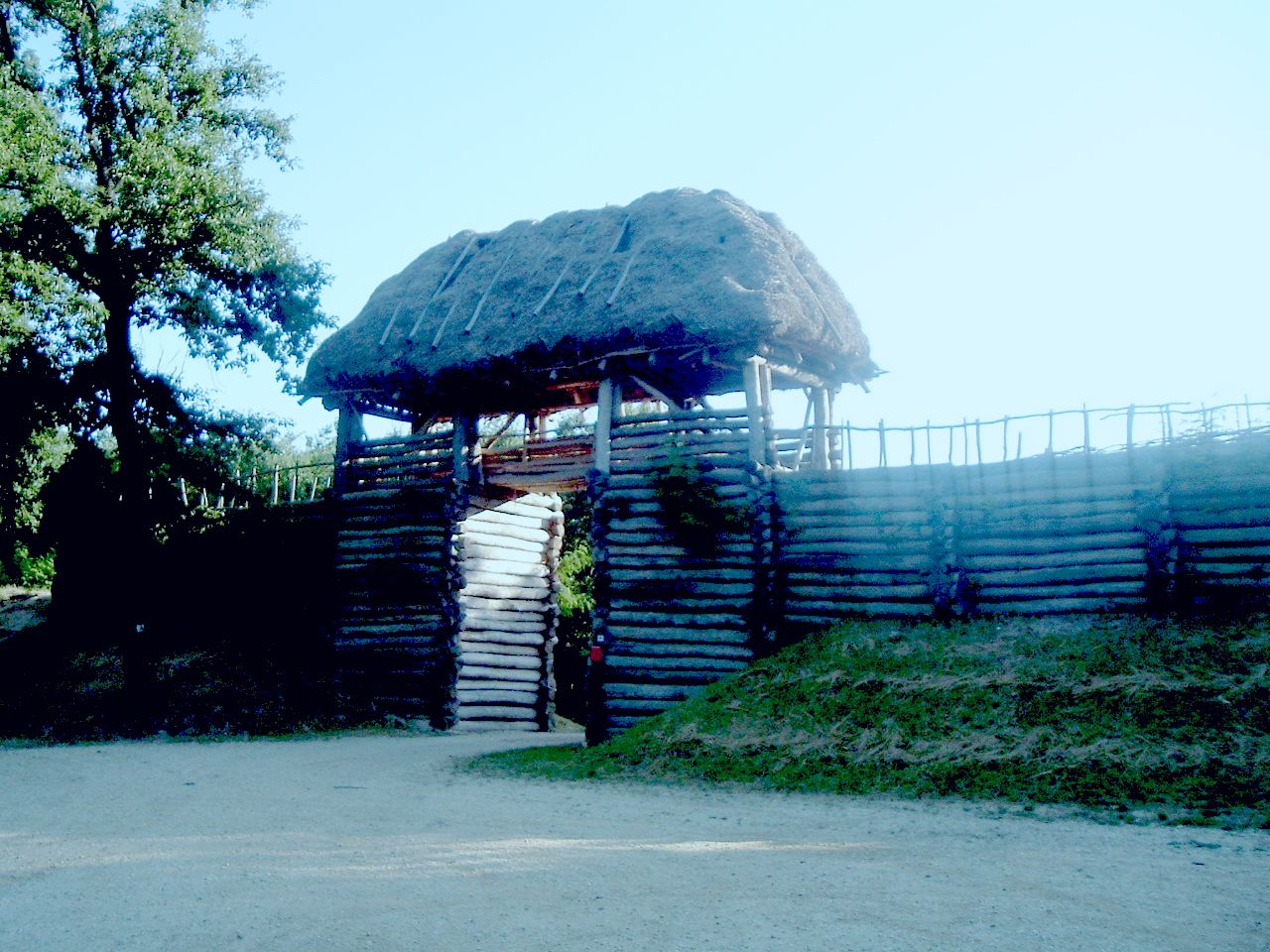 The reconstruction of the middle age boundary gate in Vasvár, Hungary